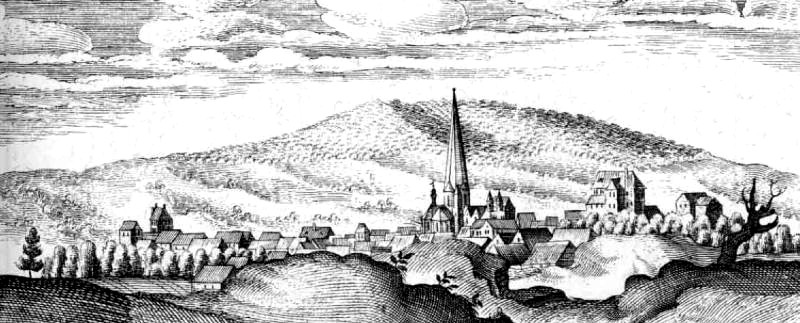 This is a scan of the historical document: Title: Schotten - Topographia Hassiae language: german